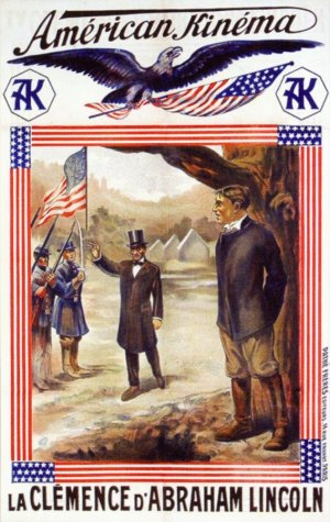 Poster for Abraham Lincoln's Clemency.